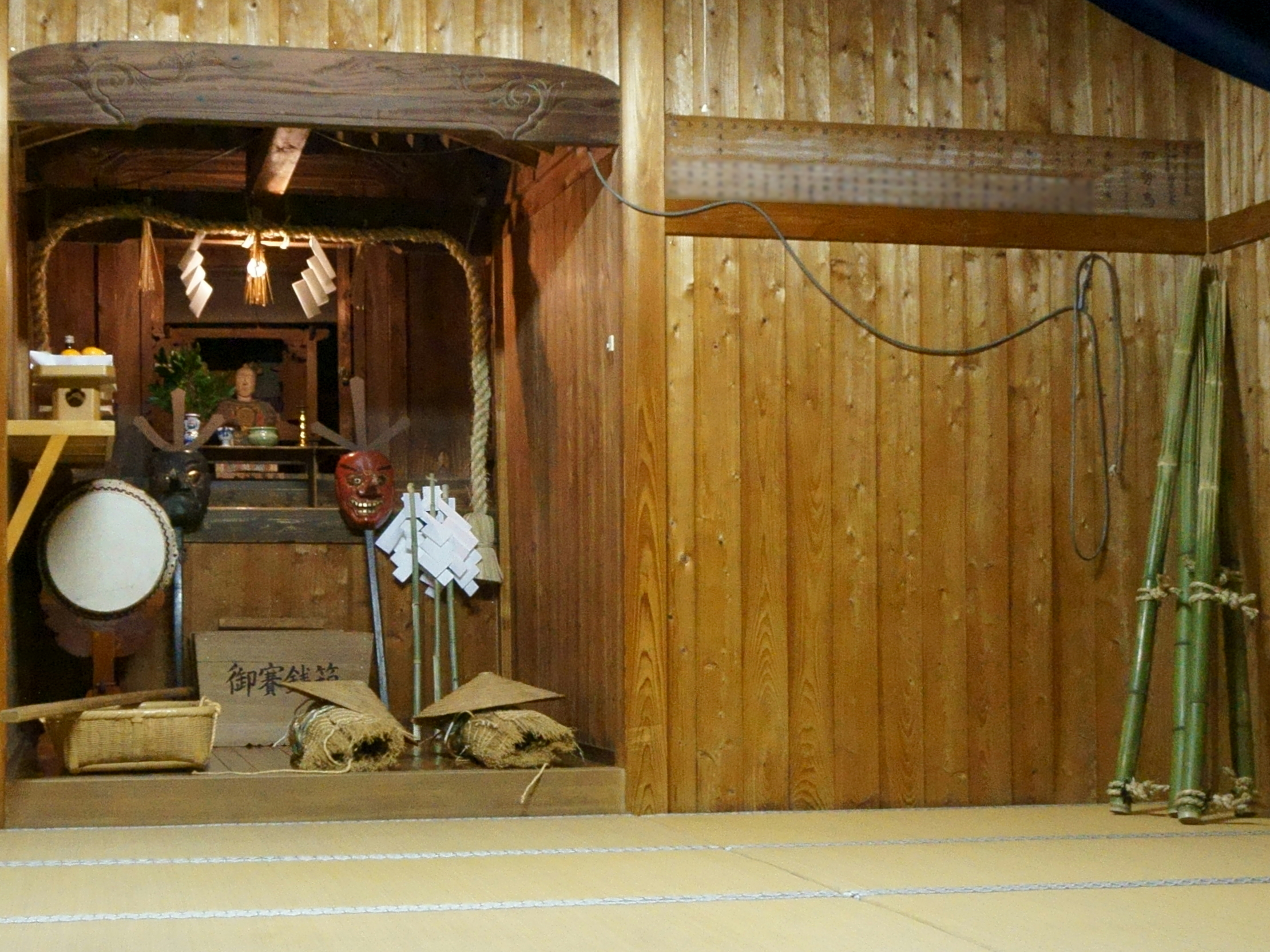 Tools offered on the alter at Kumano Shrine, in Mishima, Hasuike, Saga city. These uses on Mishima's Kasedori Festival.